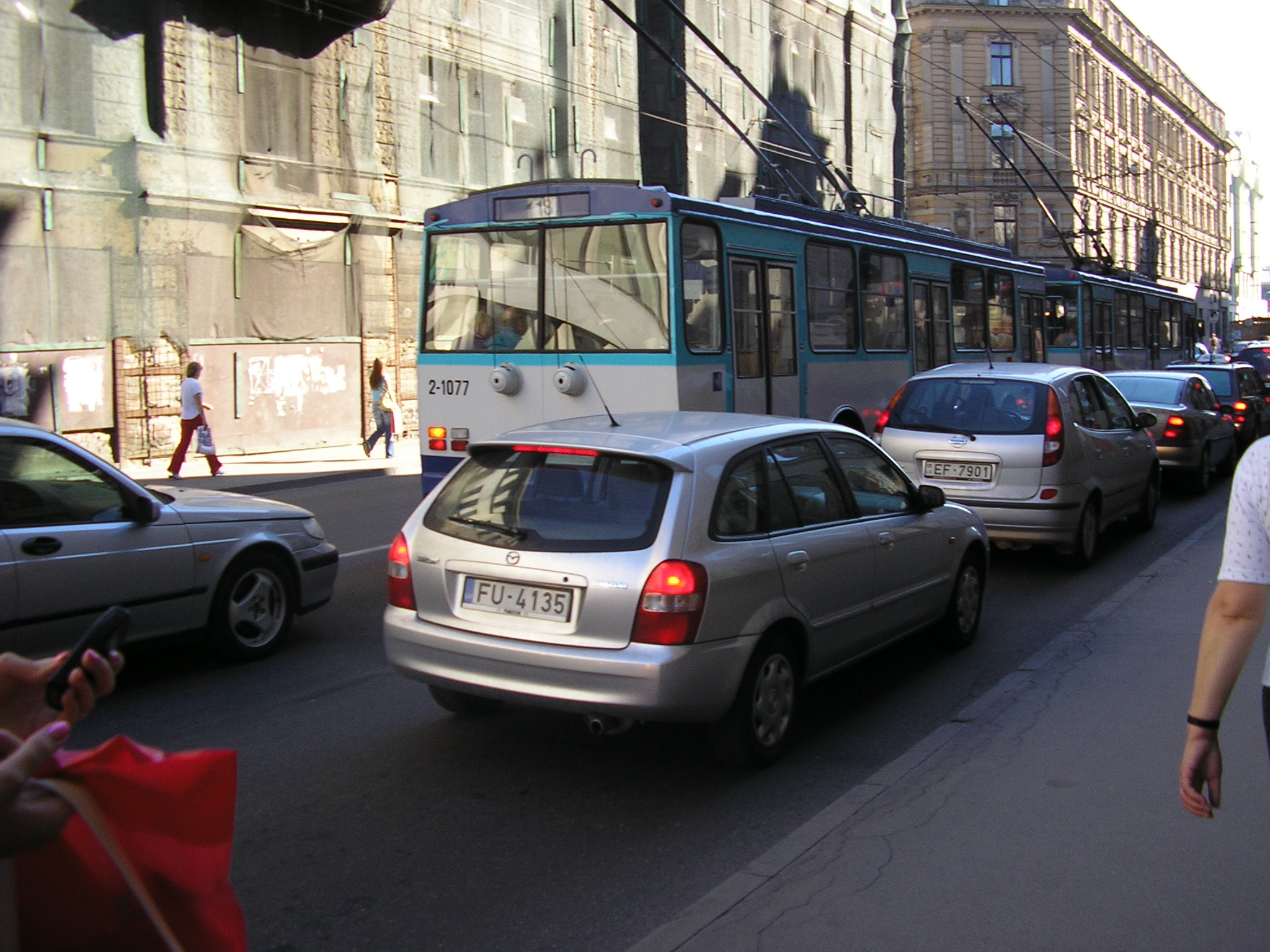 a trolleybus in Riga, Latvia